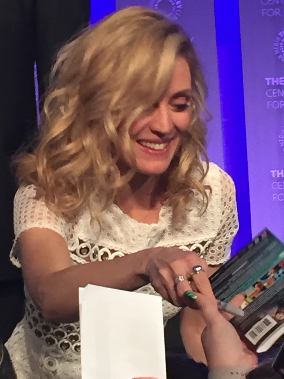 Evelyne Brochu 2017 at Paleyfest